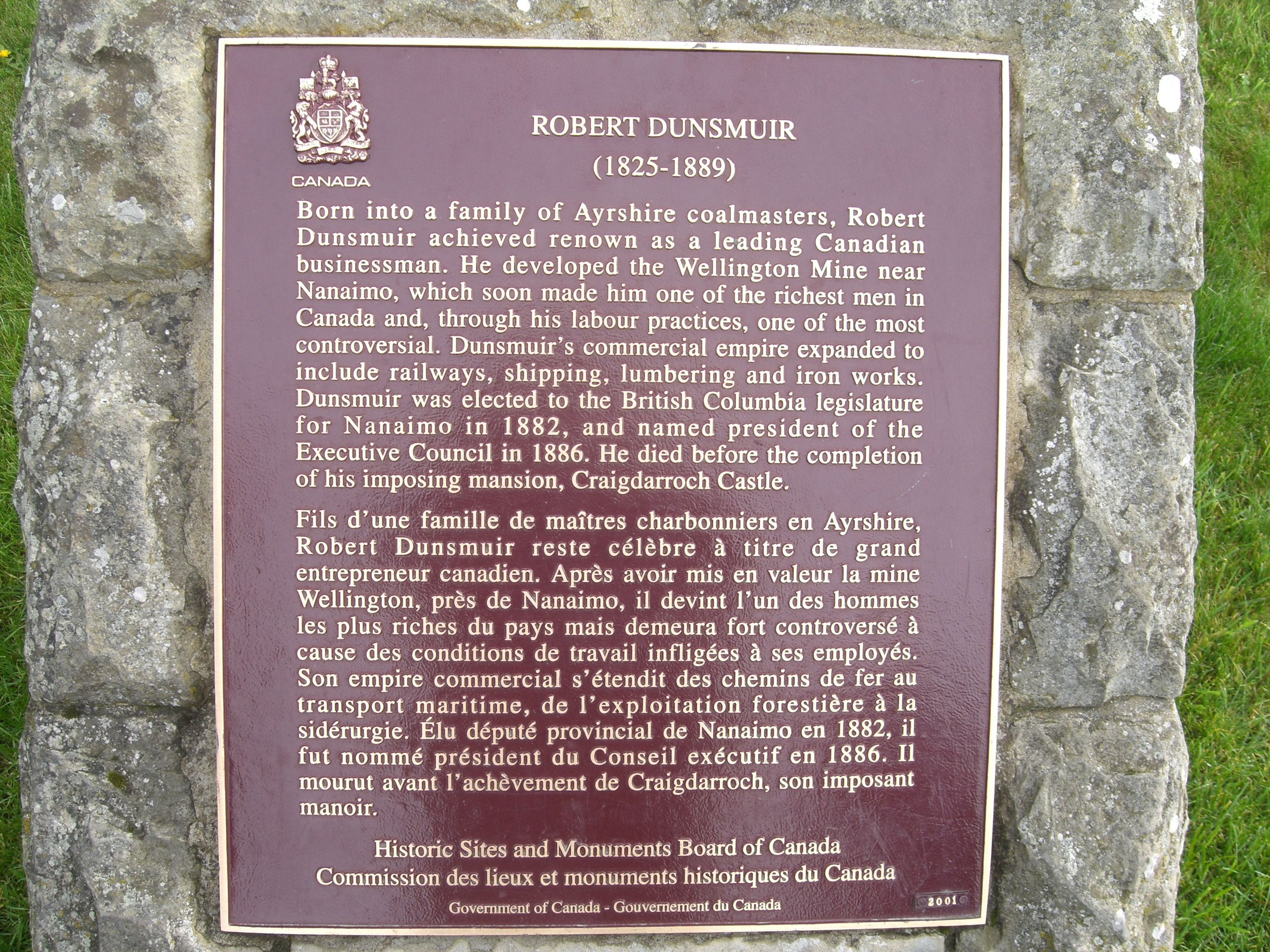 Exterior of Craigdarroch (Dunsmuir) Castle, Victoria BC showing historic plaque